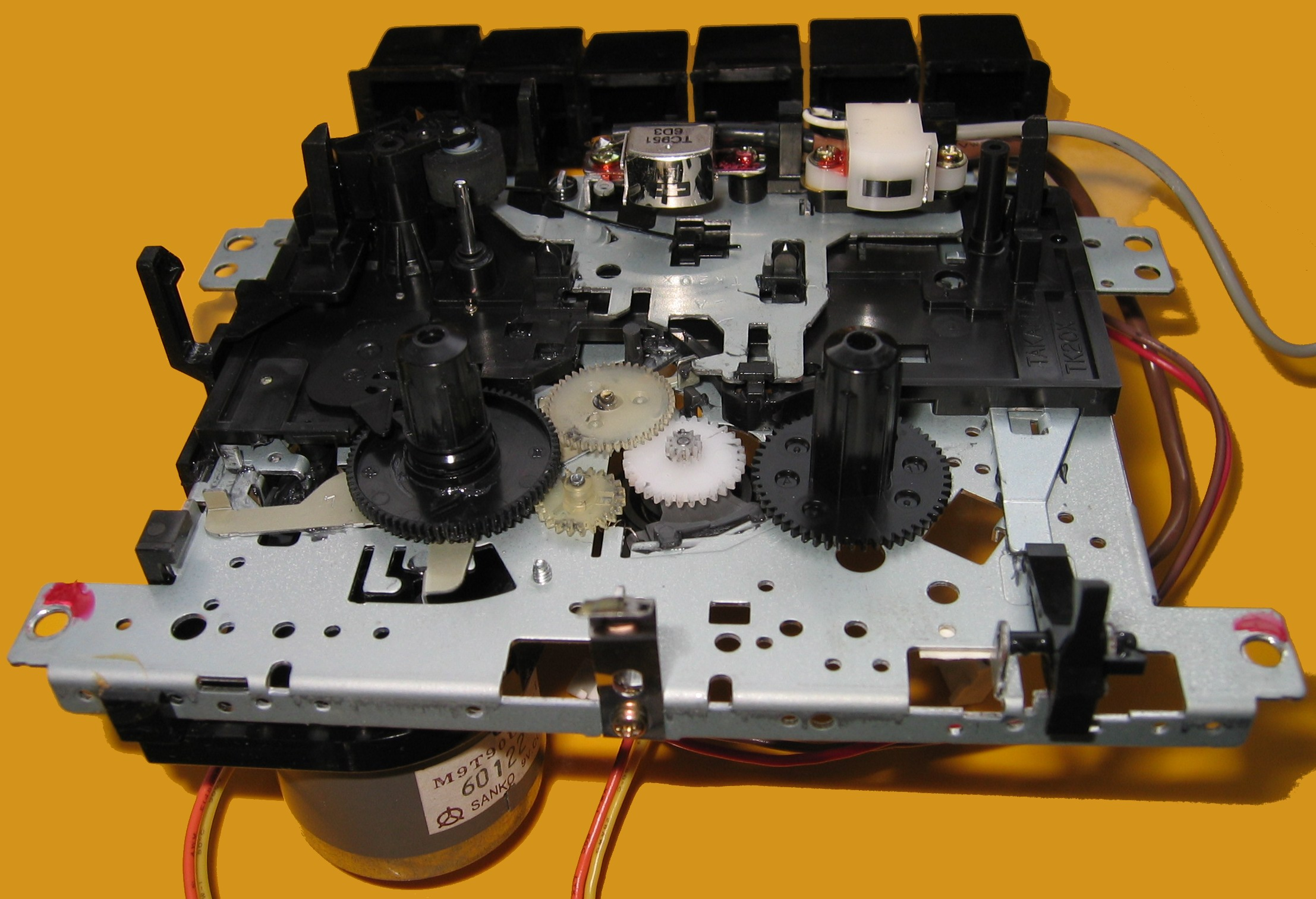 Compact Cassette Tape Drive mechanism front side